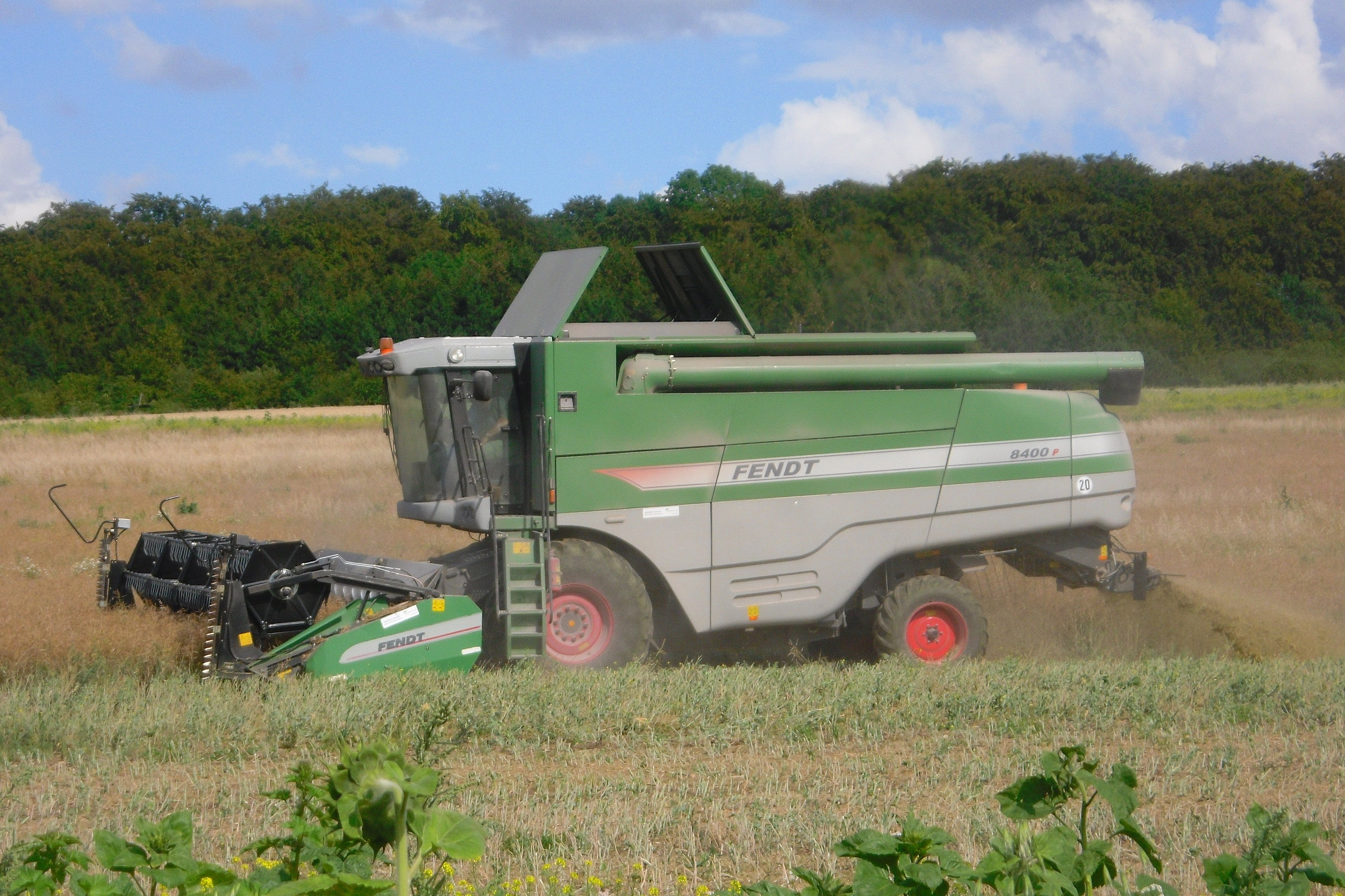 Fendt 8400 P combine harvester in summer 2011